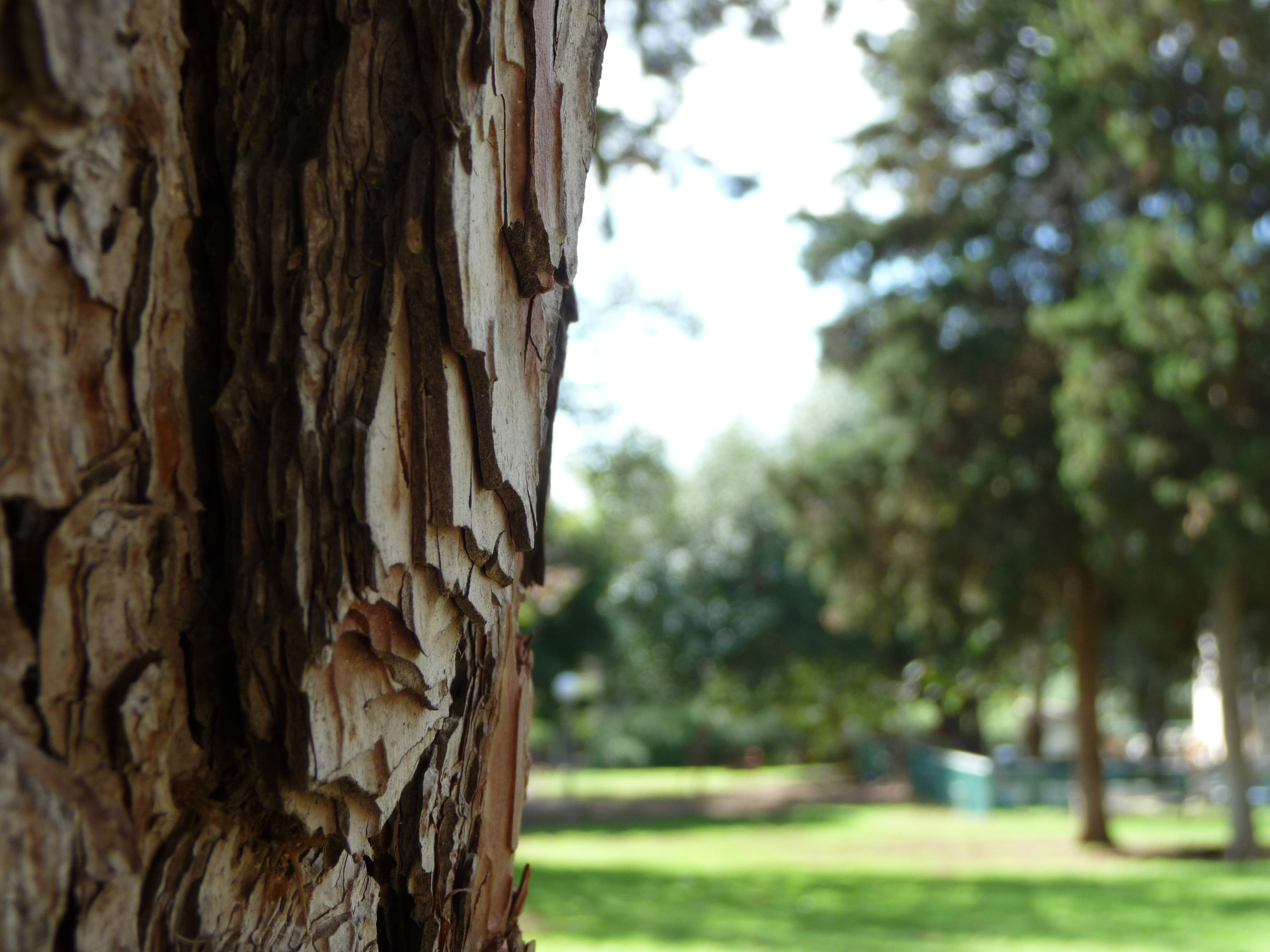 Beit Oren is a kibbutz in northern Israel. It falls under the jurisdiction of Hof HaCarmel Regional Council.